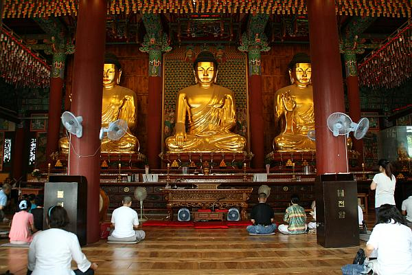 Worshipers at Jogyesa Temple, Seoul, Korea More Seoul pictures here